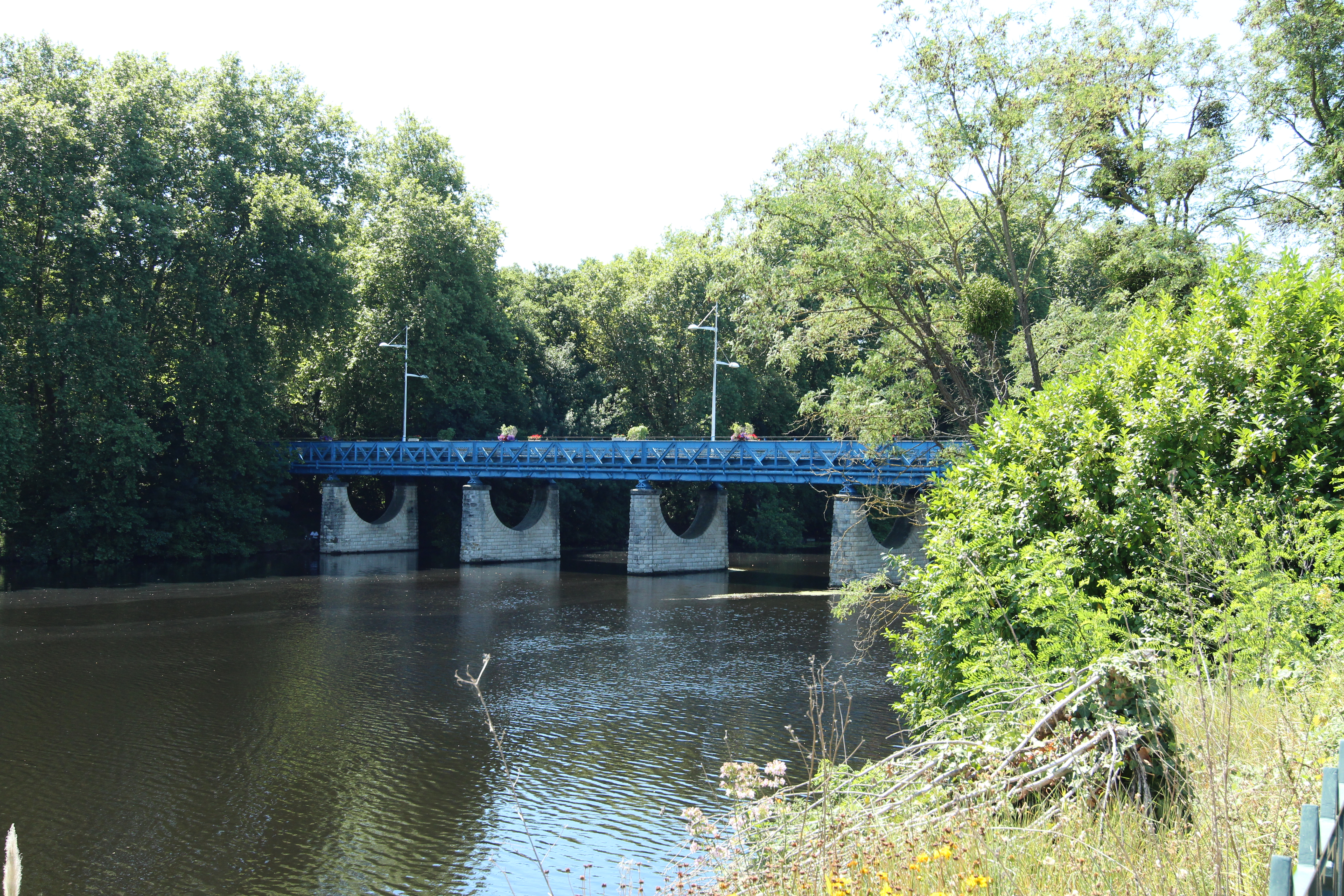 Pont de la Vienne (Bridge of the Vienne in french) in Cenon-sur-Vienne, France. Object location46° 46′ 22.15″ N, 0° 32′ 22.42″ E This picture as been uploaded as part of L'Été des régions Wikipédia.